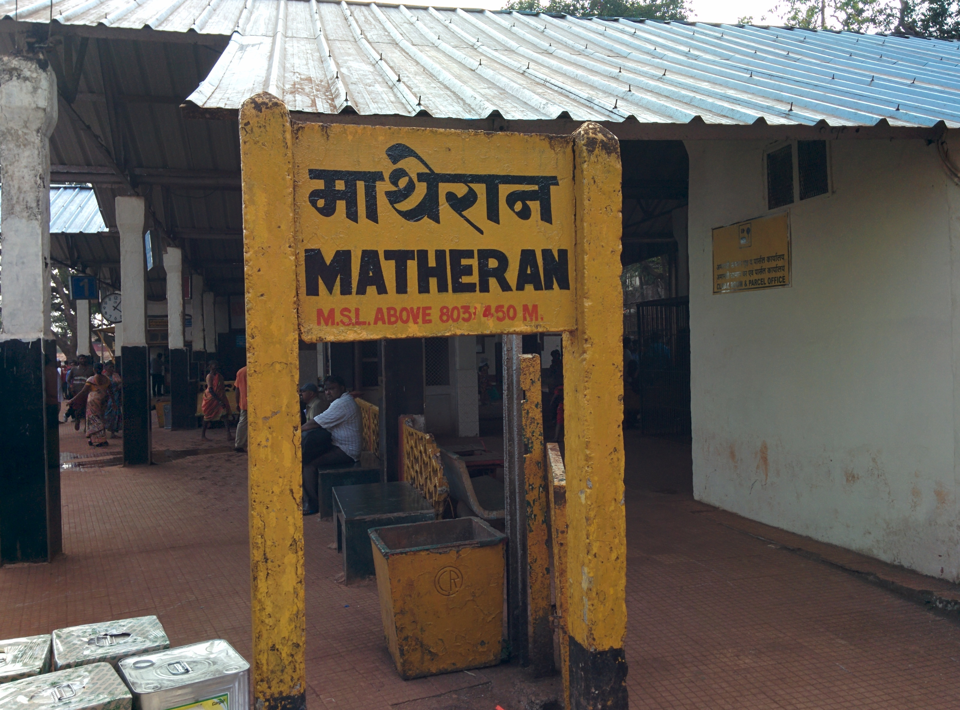 Matheran railway station